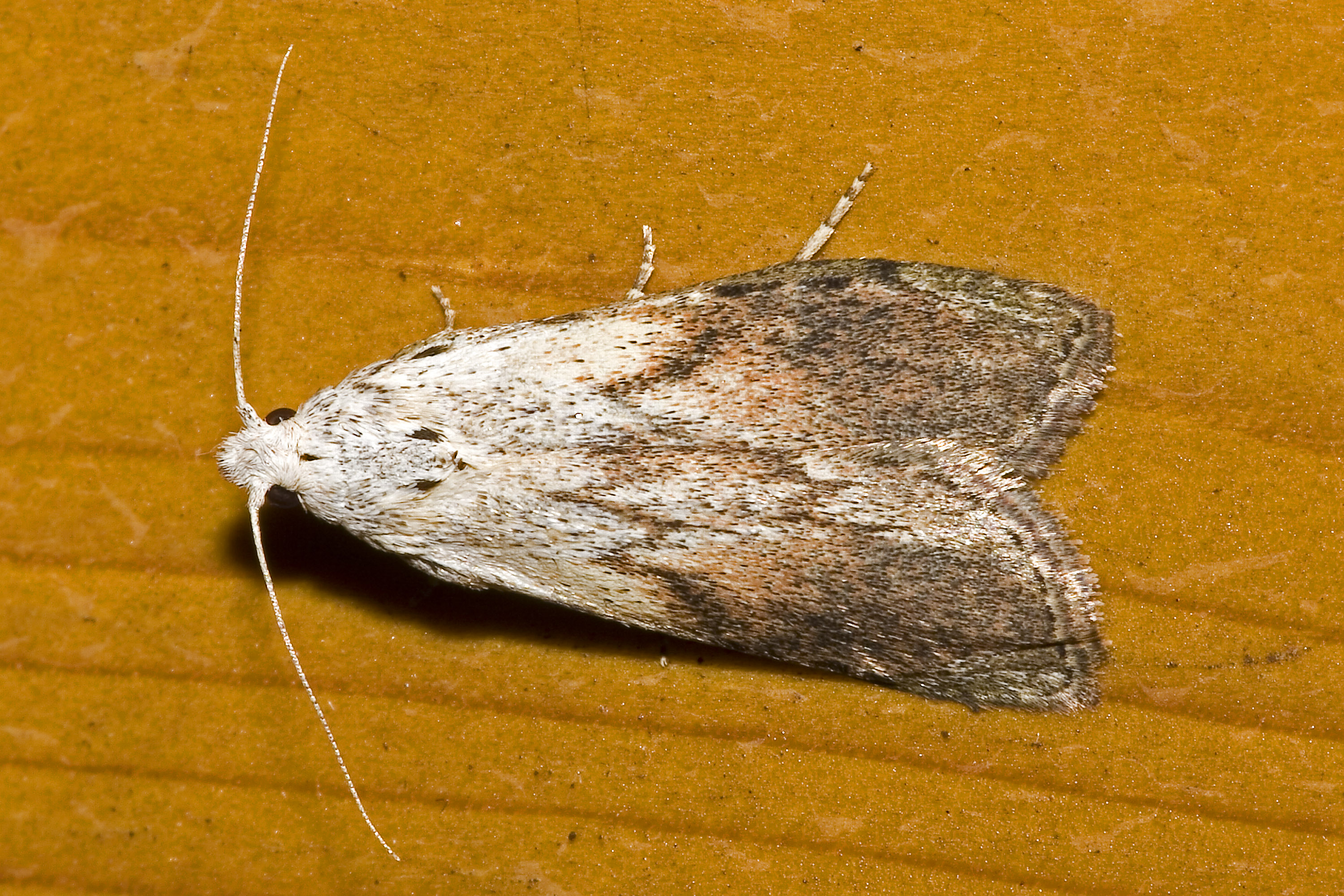 Please report references to .